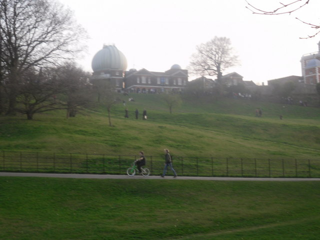 The Royal Observatory seen from below Greenwich Park comprises 163 acres and is located between Blackheath and the River Thames in south east London. It features a number of paths up and down inclines or hills. One of the hills, and probably the most familiar to visitors of the park, is seen in this photo.